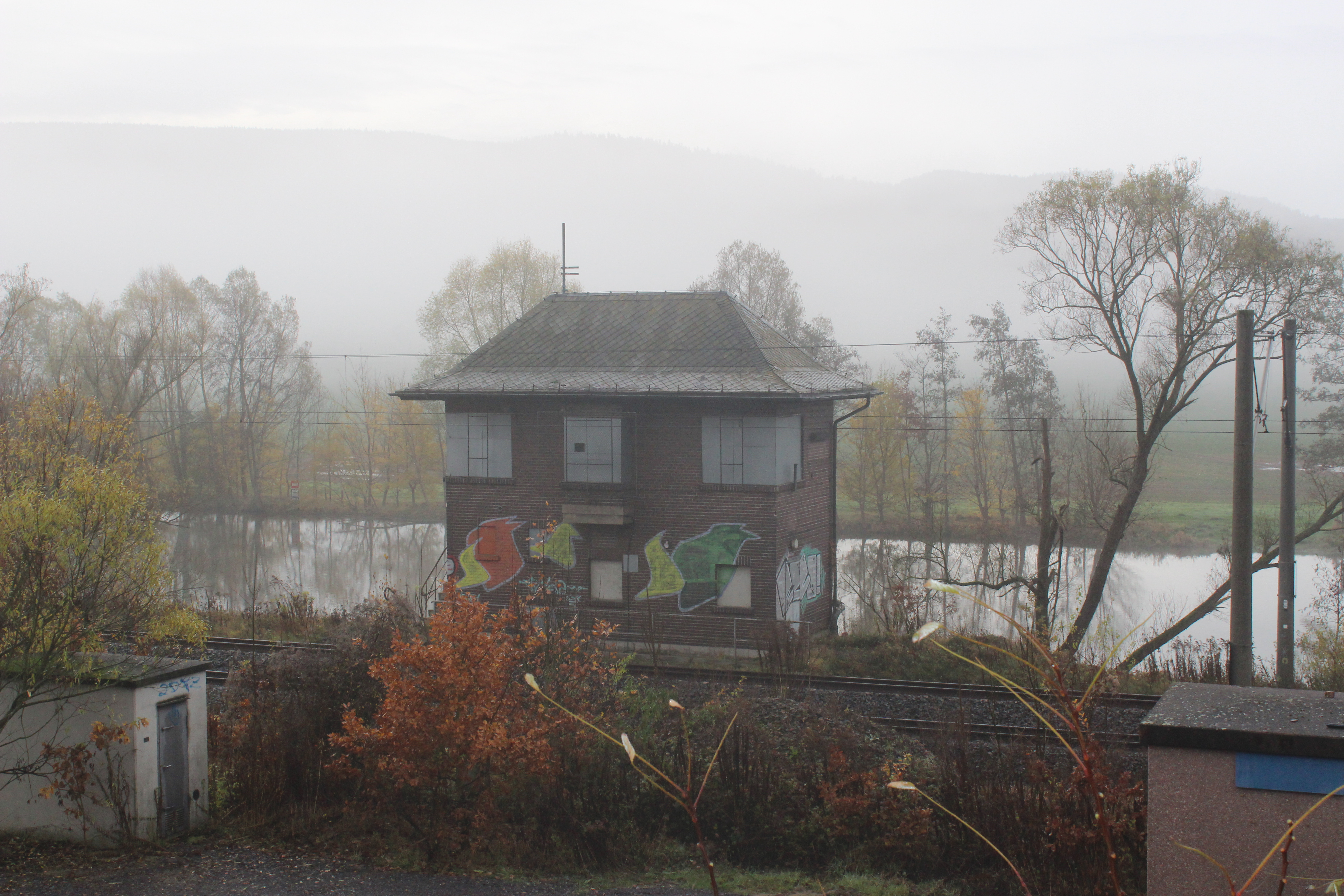 train station Uhlstädt, signal box Us